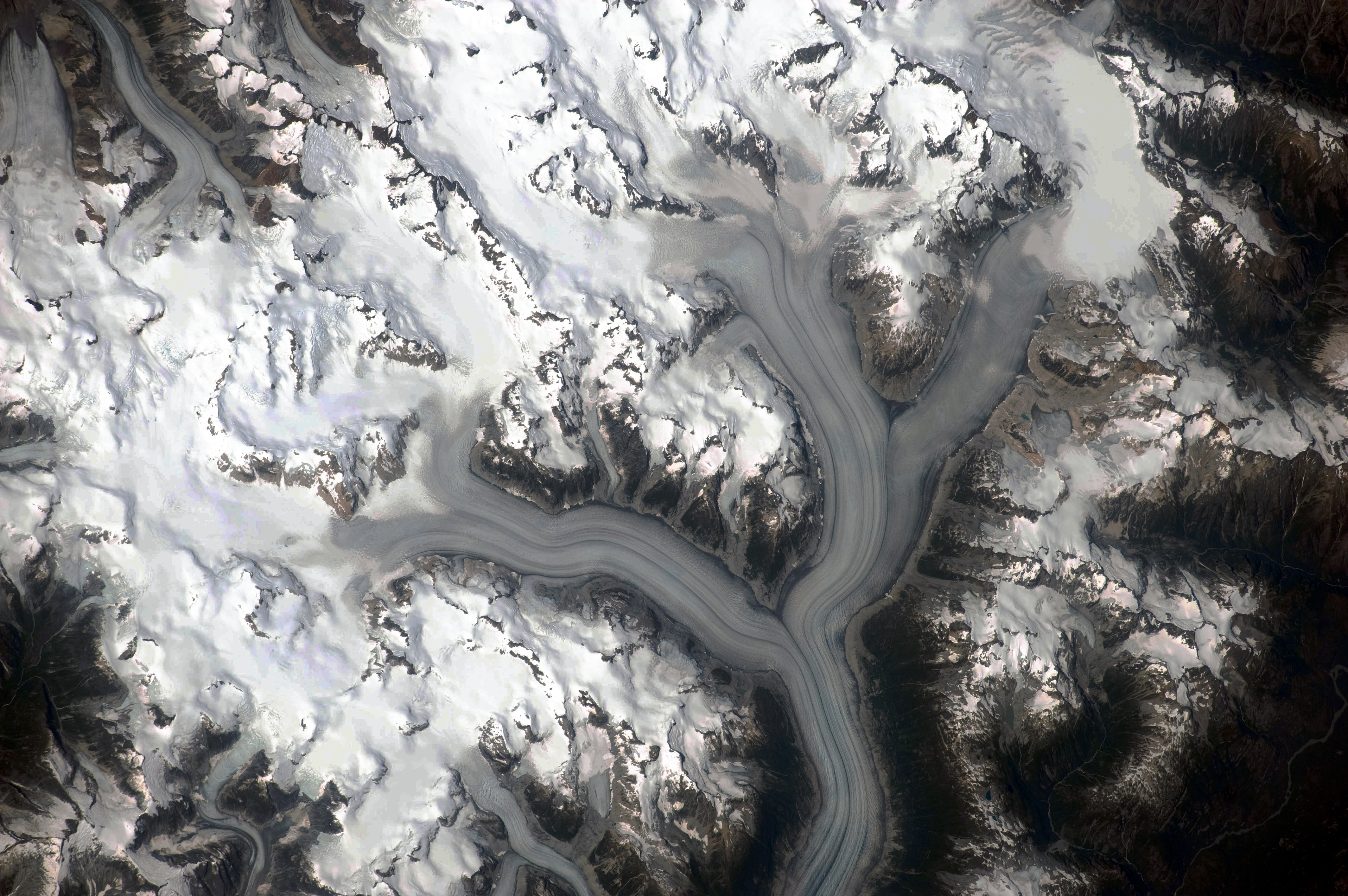 This detailed astronaut photograph illustrates the ice-field—mostly covered by snow across the upper mountain slopes—and two major valley glaciers that extend from it. The locations of former valley glaciers can frequently be identified by the presence of these U-shaped valleys on a now glacier-free landscape. The two largest valley glaciers in the image, Silverthrone Glacier and Klinaklini Glacier, both flow towards Knight Inlet to the south (not shown). Several moraines—accumulations of rock and soil debris along the edges and surface of a glacier—are drawn out into long, dark lines by the flowing ice, and they extend along the length of both glaciers. The confluence of the two glaciers at image centre illustrates how a moraine located along the side of a glacier can become a medial moraine, in the centre of the joined ice mass. Smaller valley glaciers are visible near Mount Silverthrone.